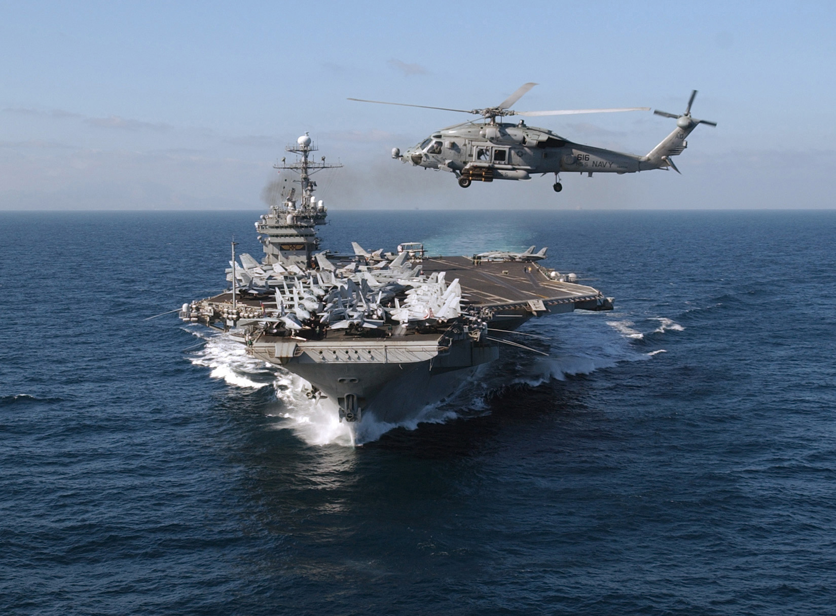 020223-N-6492H-502 At sea with USS John F. Kennedy (CV 67) Feb. 23, 2002 -- An HH-60H “Seahawk” helicopter assigned to the "Nightdippers" of Helicopter Anti-Submarine Squadron Five (HS-5) crosses the bow of USS John F. Kennedy as the carrier Battle Group (BG) arrives in the Mediterranean Sea. Kennedy is scheduled to relieve USS Theodore Roosevelt (CVN 71), and will conduct missions in support of Operation Enduring Freedom. U.S. Navy photo by Photographer’s Mate 1st Class Jim Hampshire. (RELEASED)